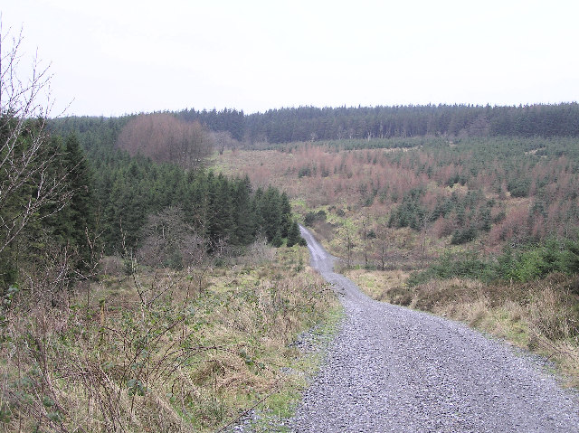 Gortin Glen Forest Park. The view looking south-east returning to the car.